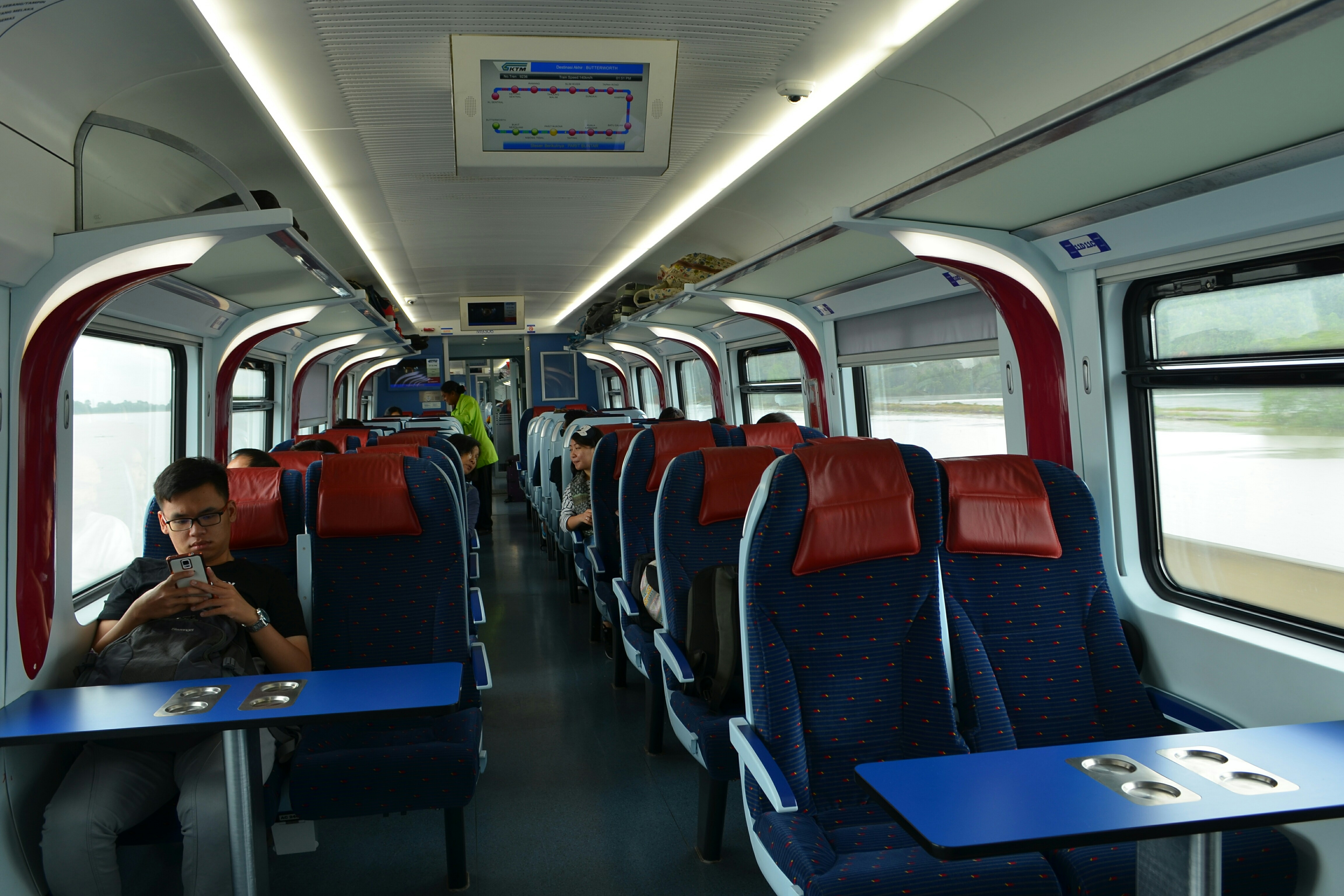 Interior of a KTM ETS Class 93 train car in January 2017.